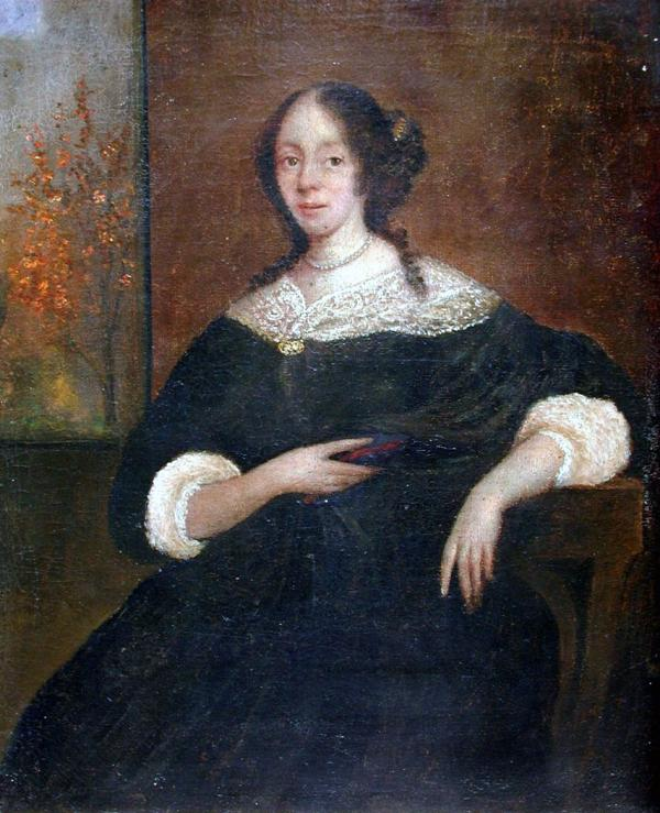 The image is of a young woman seated in a chair. Her chestnut hair is curled, gathered in a cluster at the back of her neck; tendrils fall on both shoulders. At her neck is a pearl necklace. She wears a dress that appears to be black, with a broad lace collar gathered at the front of the bodice by an ornament. The white lace sleeves of her undergarment show beneath the dress, and are gathered below the elbow. A dark scarf hangs over her left arm and is gathered behind her right hand, which also holds a small book. The upper part of her full skirt is visible, as is the wooden open back of the chair on which she sits. The background of the portrait is an undifferentiated interior space of warm brown. An unframed opening, representing a window, shows a landscape with a small tree in autumn foliage. According to the history that came with the painting, the foliage was added to the work by Joseph Wright.